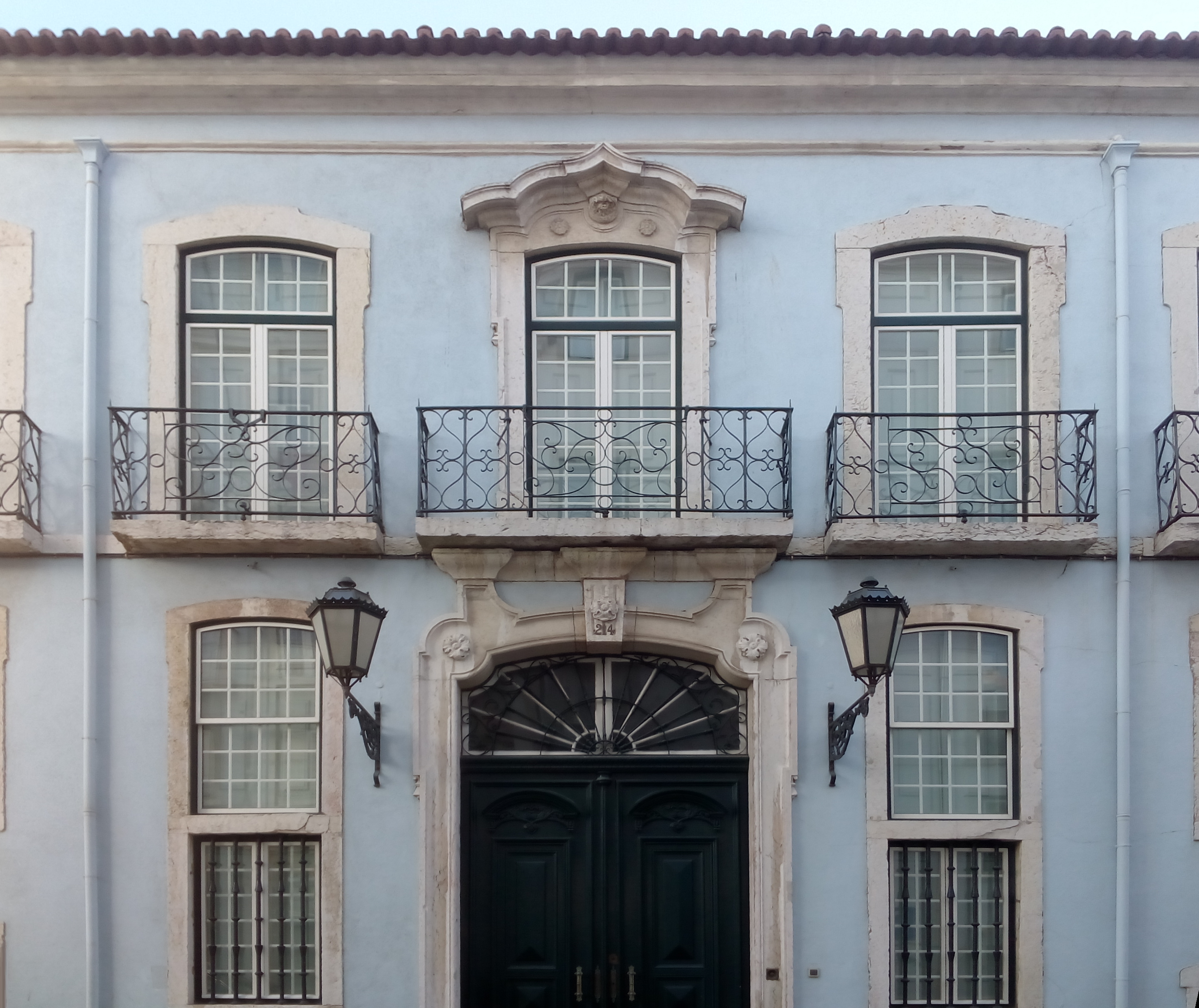 The main façade of Palácio de Santana, in Lisbon, Portugal